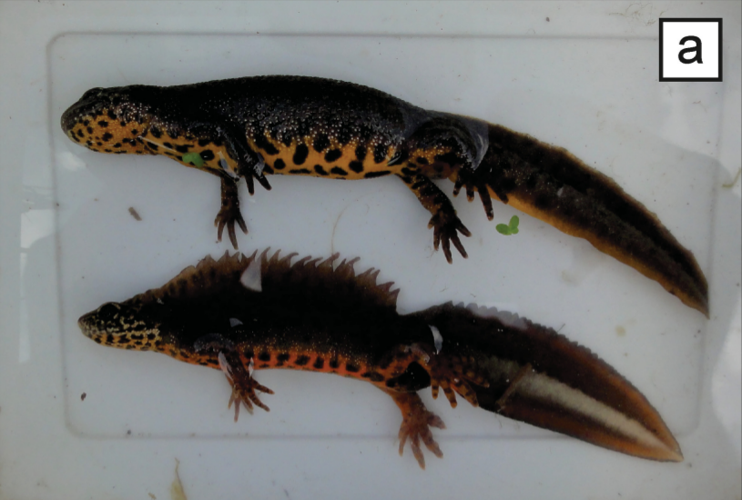 From the original articleː "The holotype and one of the paratypes of Triturus anatolicus sp. nov. in life. Lateral (a) and ventral (b) view of a male (below, holotype, RMNH.RENA.48232) and a female (above, paratype, RMNH.RENA.48239)."